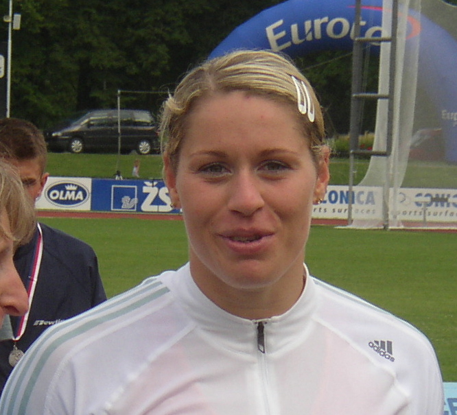 Věra Cechlová-Pospíšilová (Czech athlete - discus throw) at 2005 Championships of the Czech Republic in athletics, Sletiště Stadium in Kladno, Czech Republic.